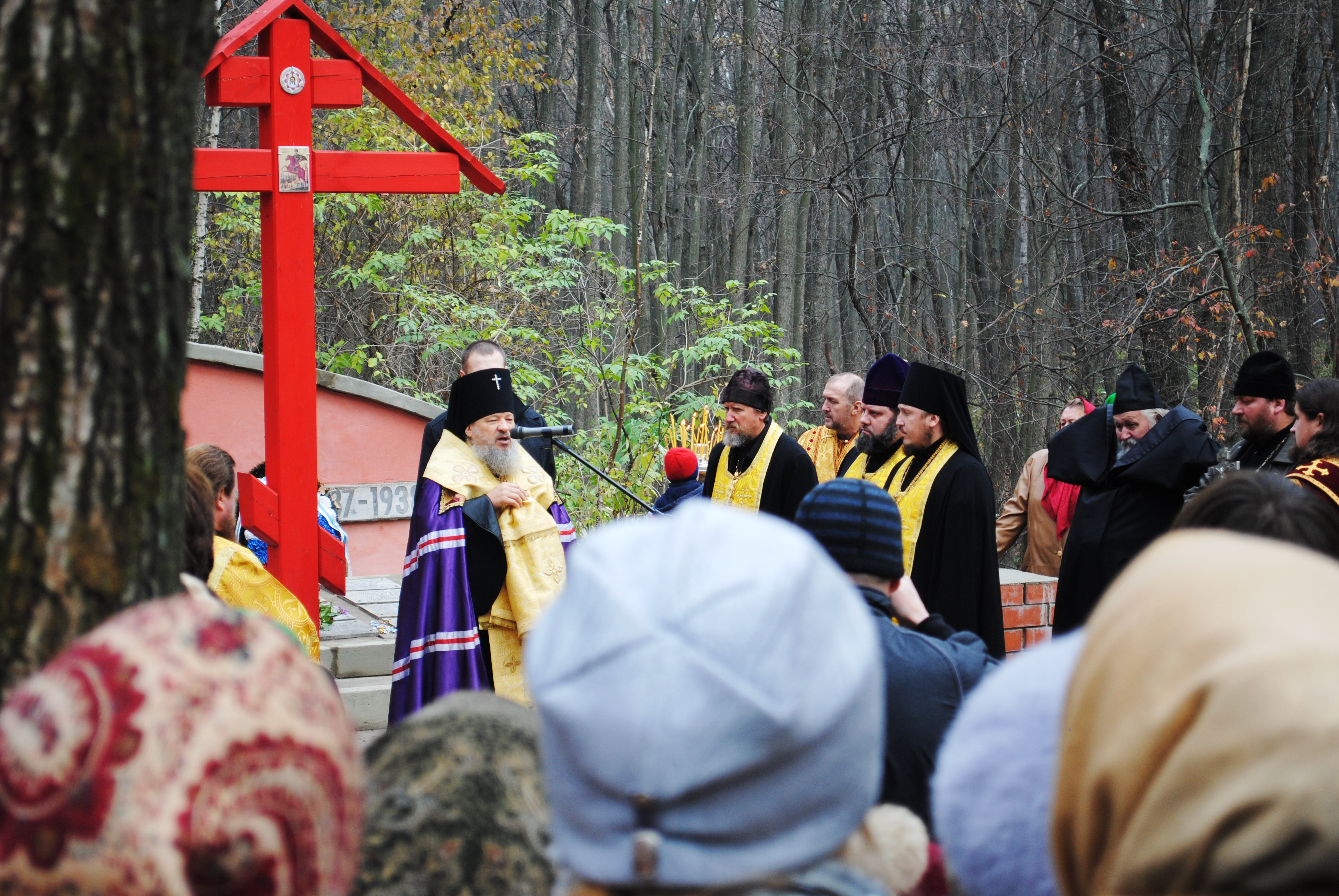 Lipovchik